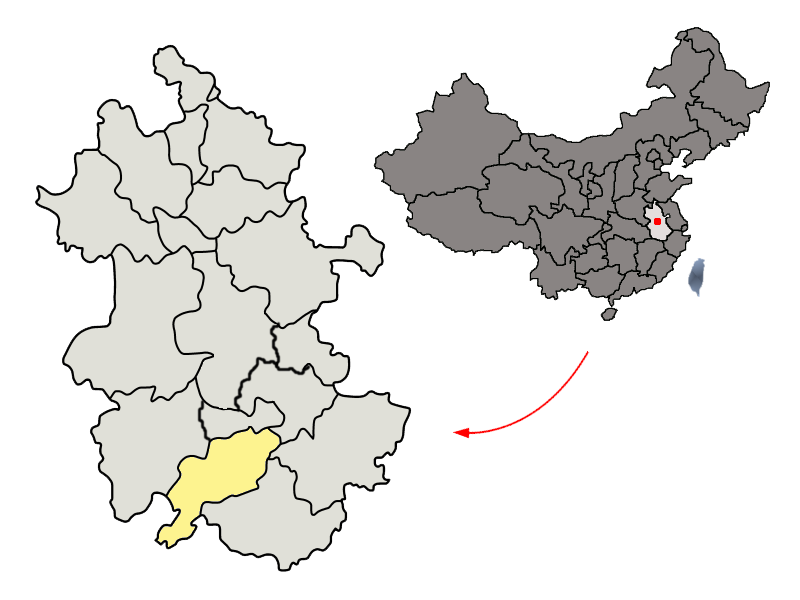 Location of Chizhou Prefecture (yellow) within Anhui Province of China Map drawn in december 2007 using various sources, mainly : Anhui Province administrative regions GIS data: 1:1M, County level, 1990 Anhui Counties map from